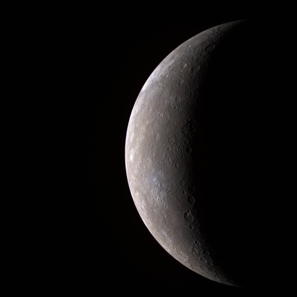 First high-resolution image of Mercury transmitted by the MESSENGER spacecraft (in false color, 11 narrow-band color filters)